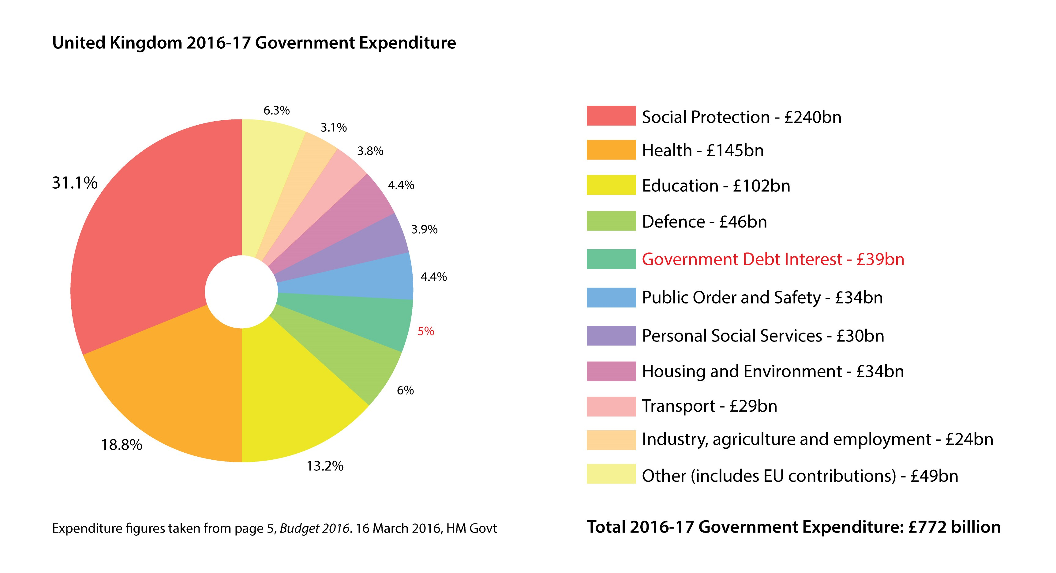 Graph showing breakdown of UK Government Expenditure 2016-17. Taken from page 5, Budget 2016 report, published 16 March 2016 by Her Majesty's Government. Accessed at